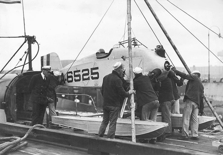 A U.S. Navy Martin MS-1 seaplane (BuNo A-6525) being assembled on the after deck of USS S-1 (SS-105), at Hampton Roads, Virginia, 24 October 1923. Note the entrance to the submarine's small hangar, at left, booms used to erect the plane's structure, and the seaplane's metal floats and three-cylinder engine.